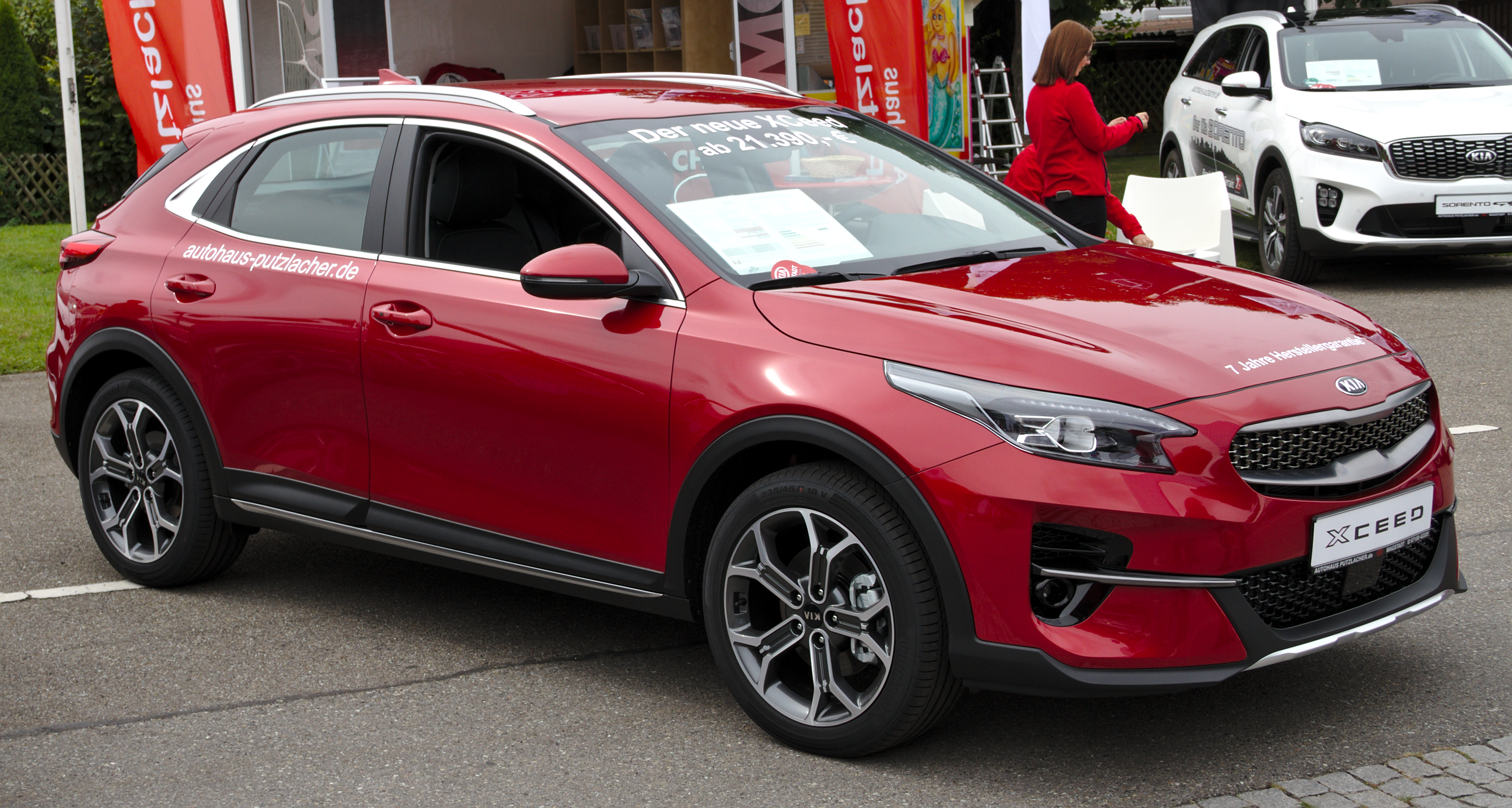 Kia_XCeed at Leonberger Autoschau 2019